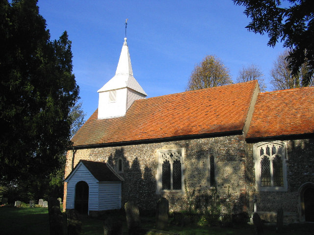 St Andrew's parish church, Willingale, Essex, seen from the south. This was the church of the Willingale Spain parish.